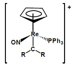 A Renium compound